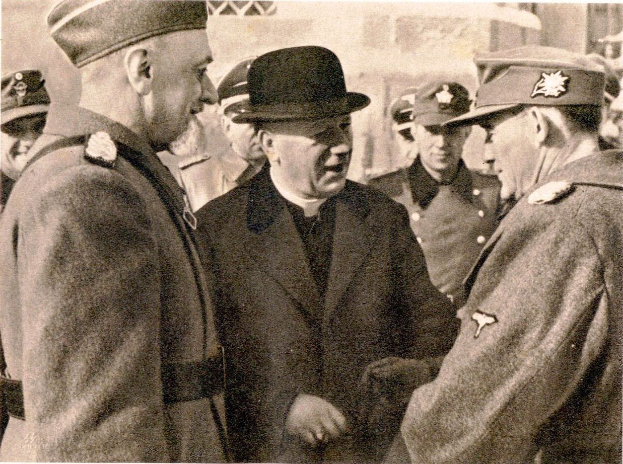 From left: Rupnik, Rožman and Rösener